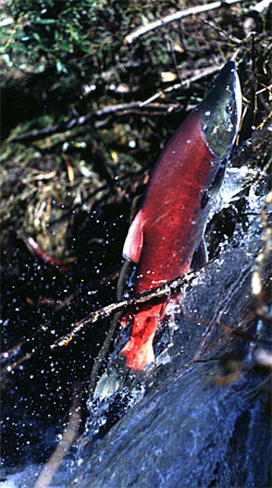 Sockeye salmon jumping over beaver dam Lake Aleknagik, AK by Kristina Ramstad 1997.